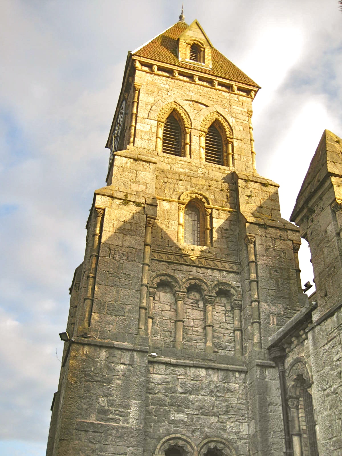 Tower of St Agatha's parish church, Llanymynech, Shropshire